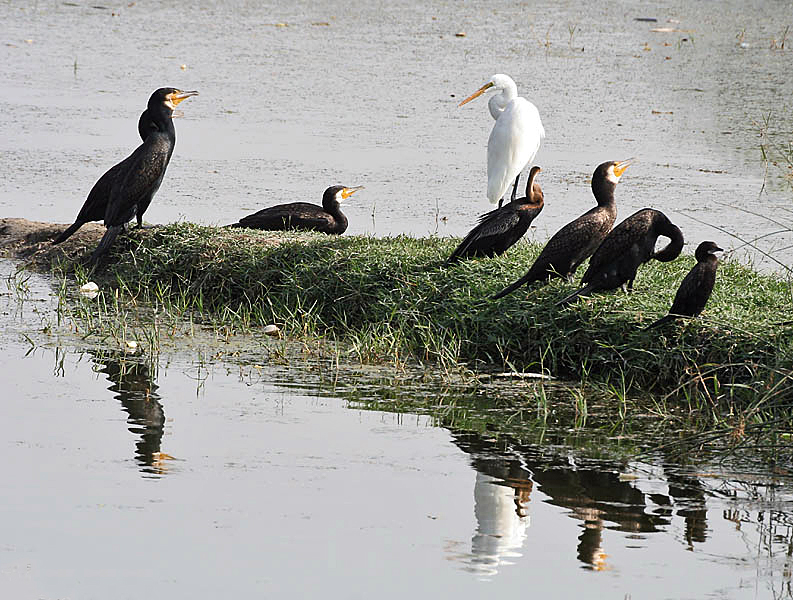 Great Cormorant Phalacrocorax carbo, Darter, and Great Egret near Hodal in Faridabad District of Haryana, India.